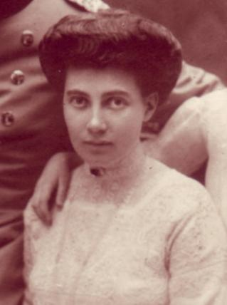 Prinz Maximilian von Baden and Princess Marie Louise with children